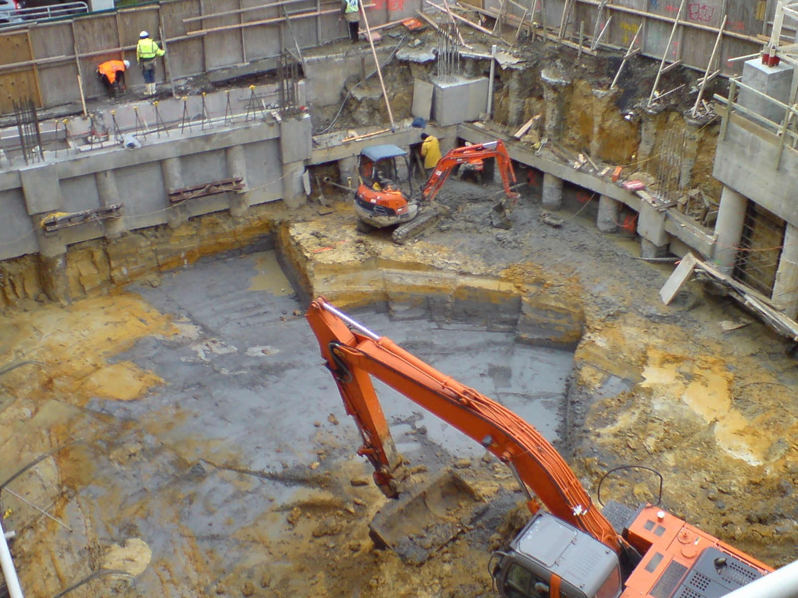 Clay in a construction site. Auckland City, New Zealand.